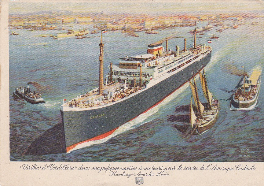 Postcard showing the ship Caribia, painting by Erich Kips